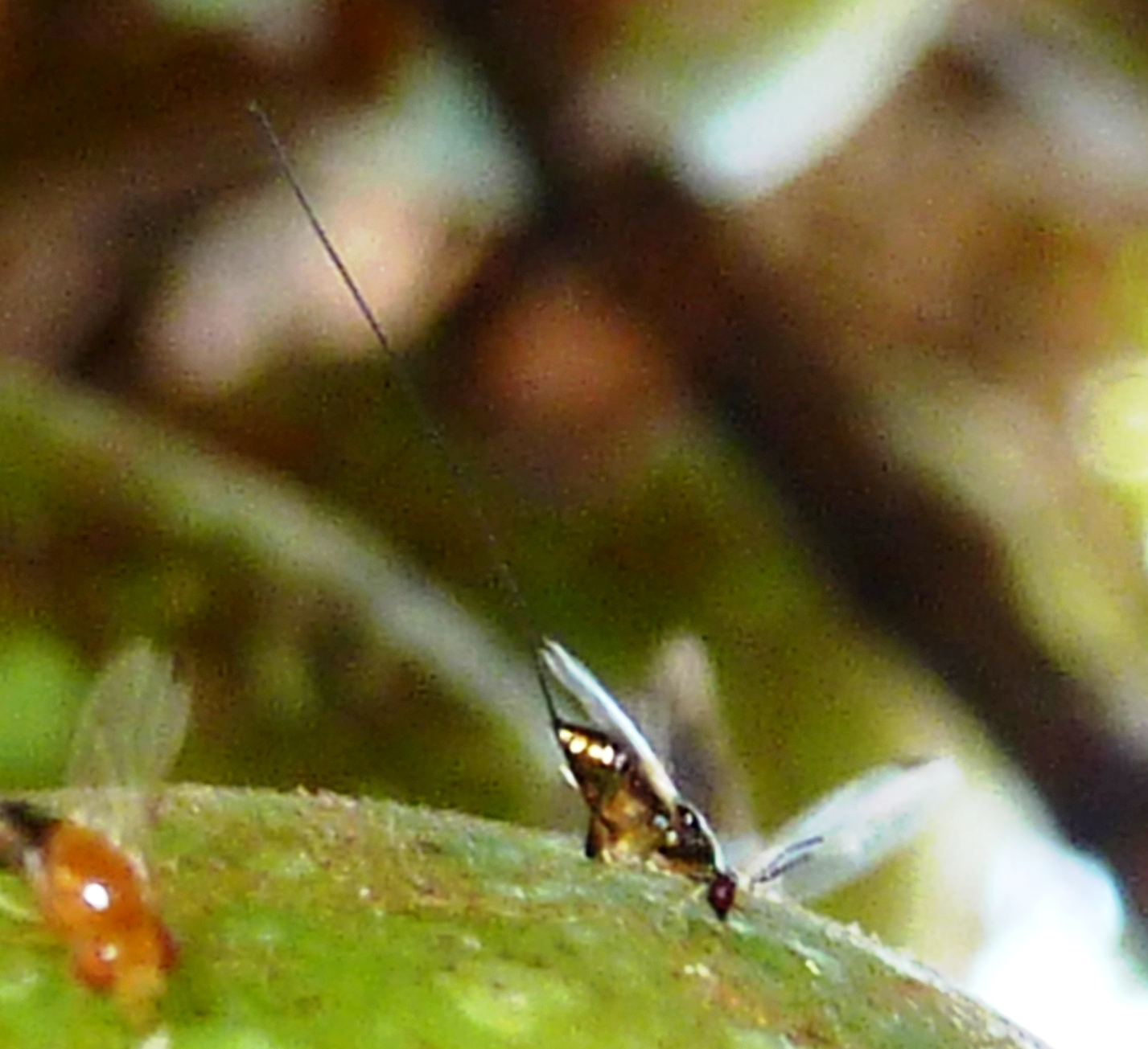 Apocrypta guineensis on Ficus sur in Jan Celliers Park, Pretoria